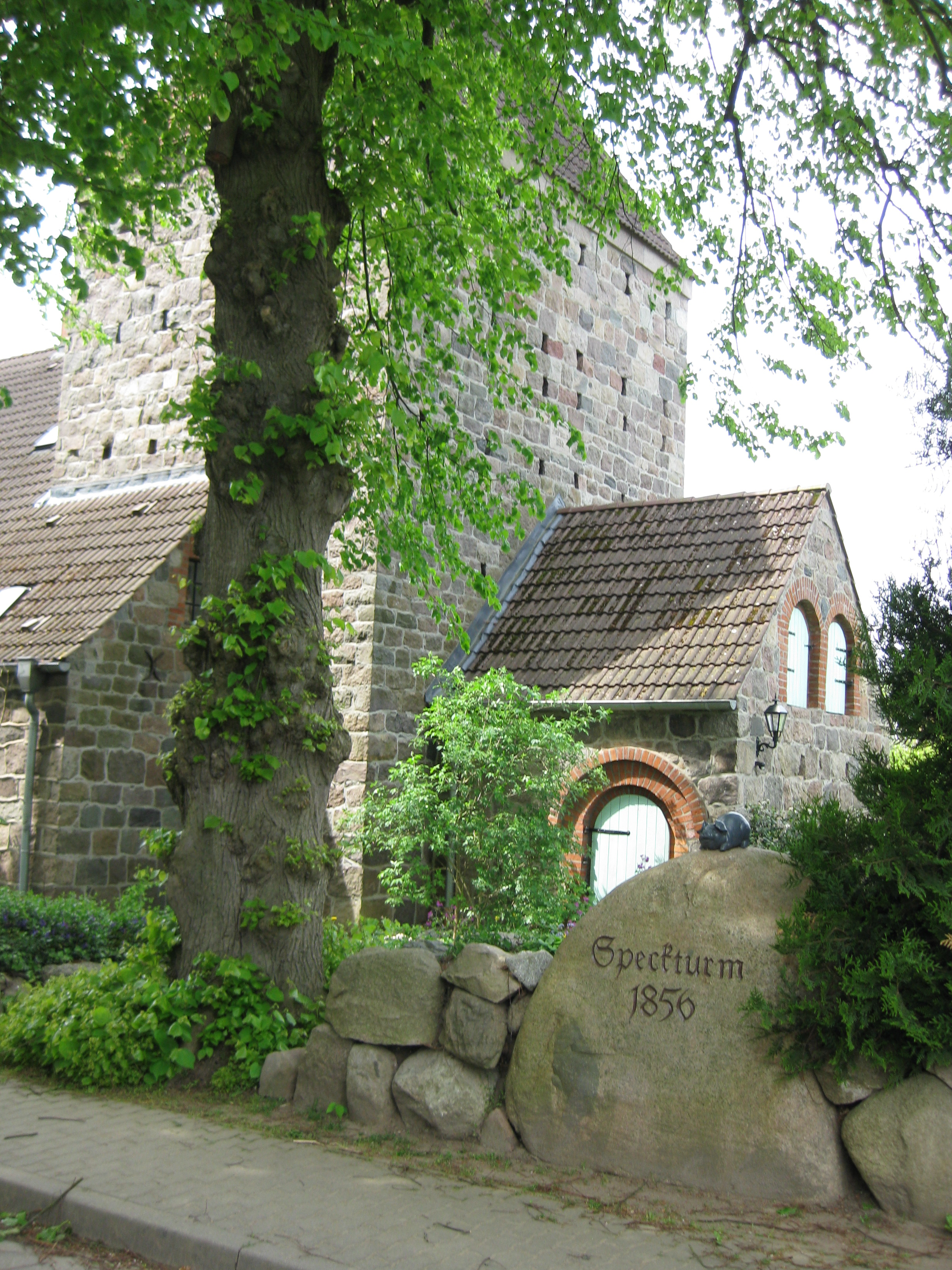 The „Speckturm“ built 1856 in Rankendorf, municipality of Roggenstorf, Nordwestmecklenburg